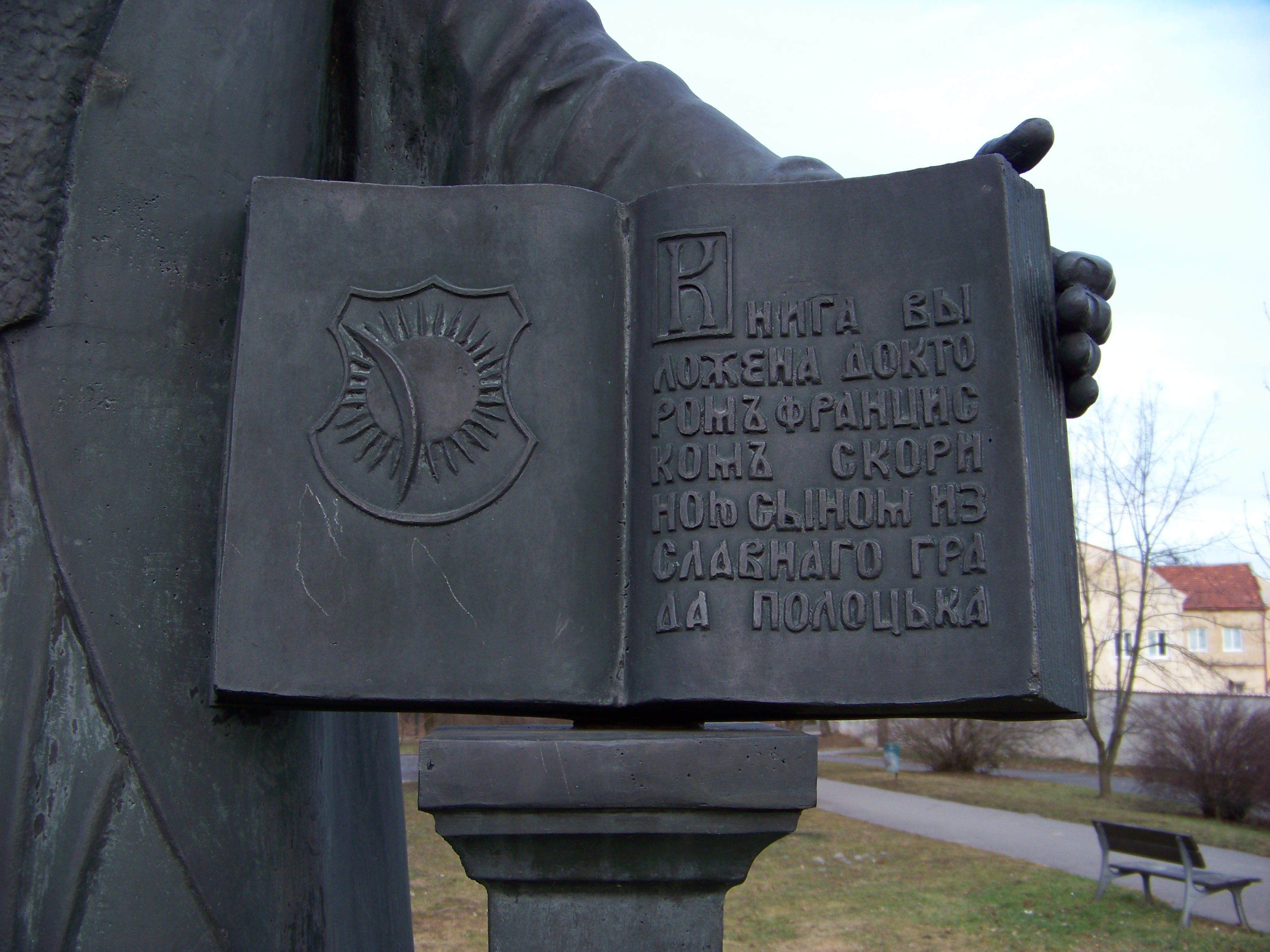 Prague-Hradčany, Czech Republic. Jelení street, a monument to Francysk Skaryna. - Google Maps - Google Earth